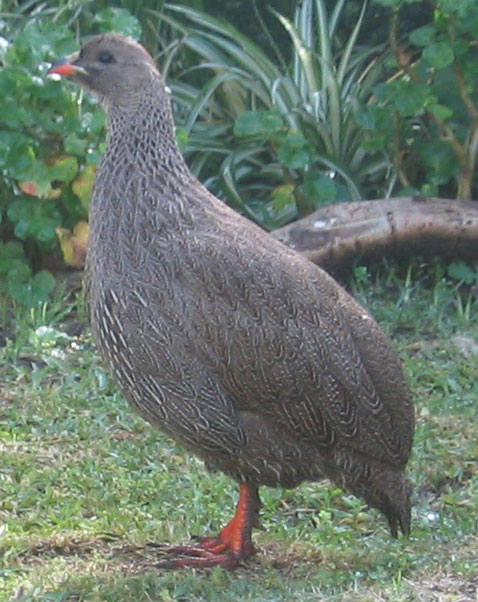 Pternistis capensis (Cape Francolin)